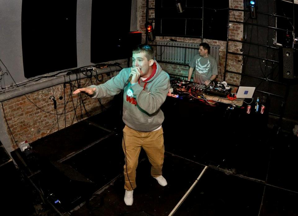 Polish rapper Flint